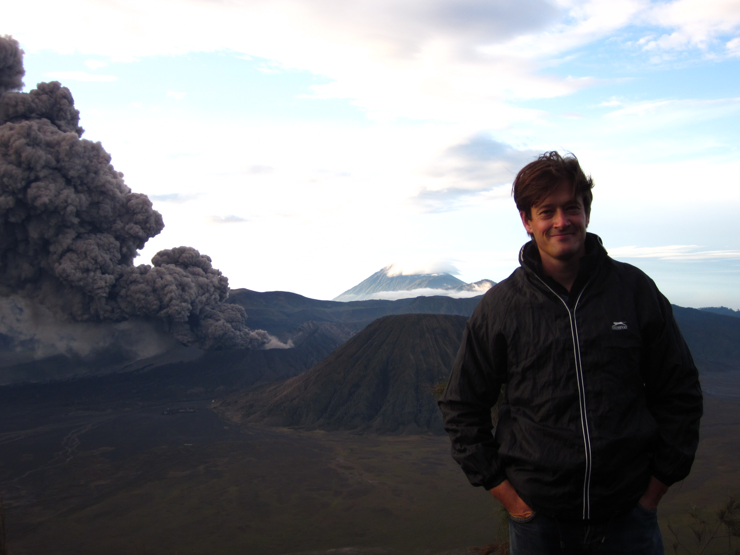 Jamie Maslin at Mt Bromo in East Java, Indonesia, January 2011. Photo by Mary Yoo.